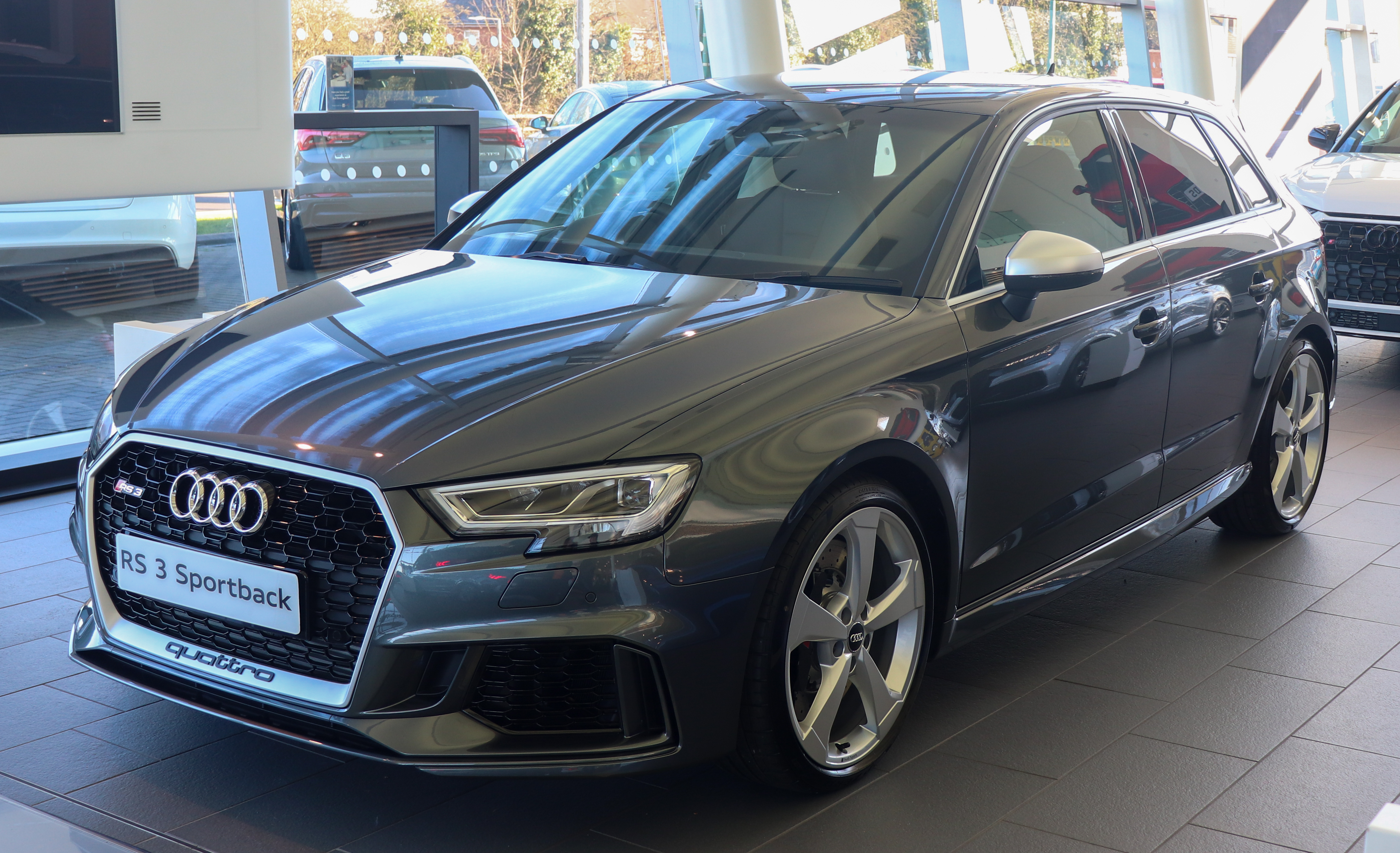 2019 Audi RS3 Sportback Front Taken in Listers Birmingham Audi, Shirley, Solihull